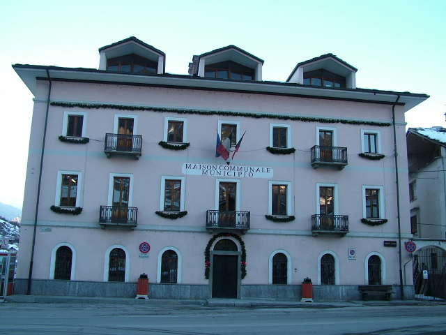 City hall of Aymavilles (Aosta Valley, Italy)